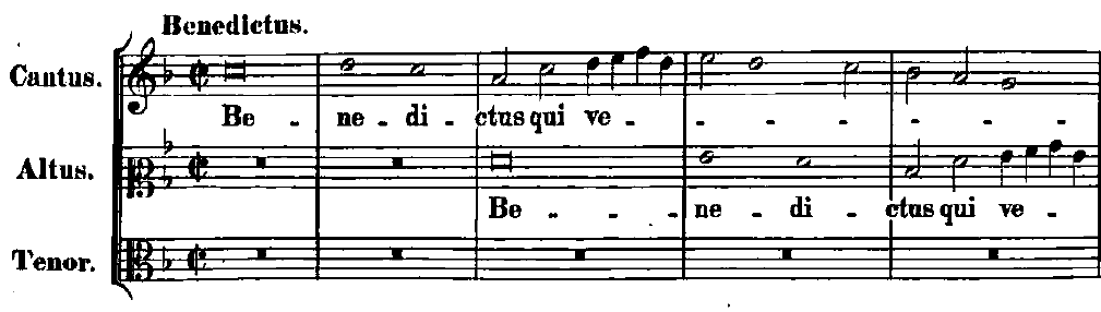 Present in Palestrina's Missa Brevis